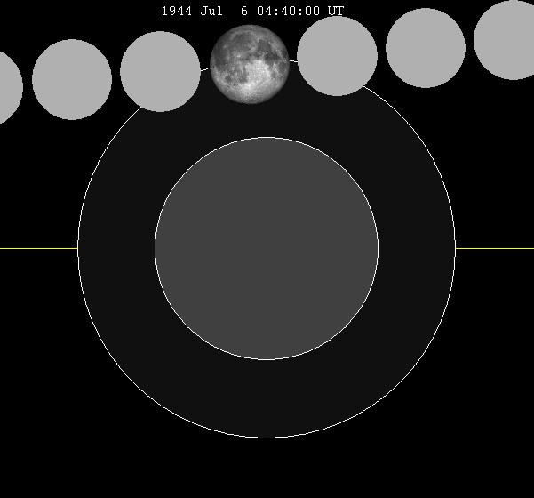 Lunar eclipse chart of moon's path through the earth's shadow. thumb